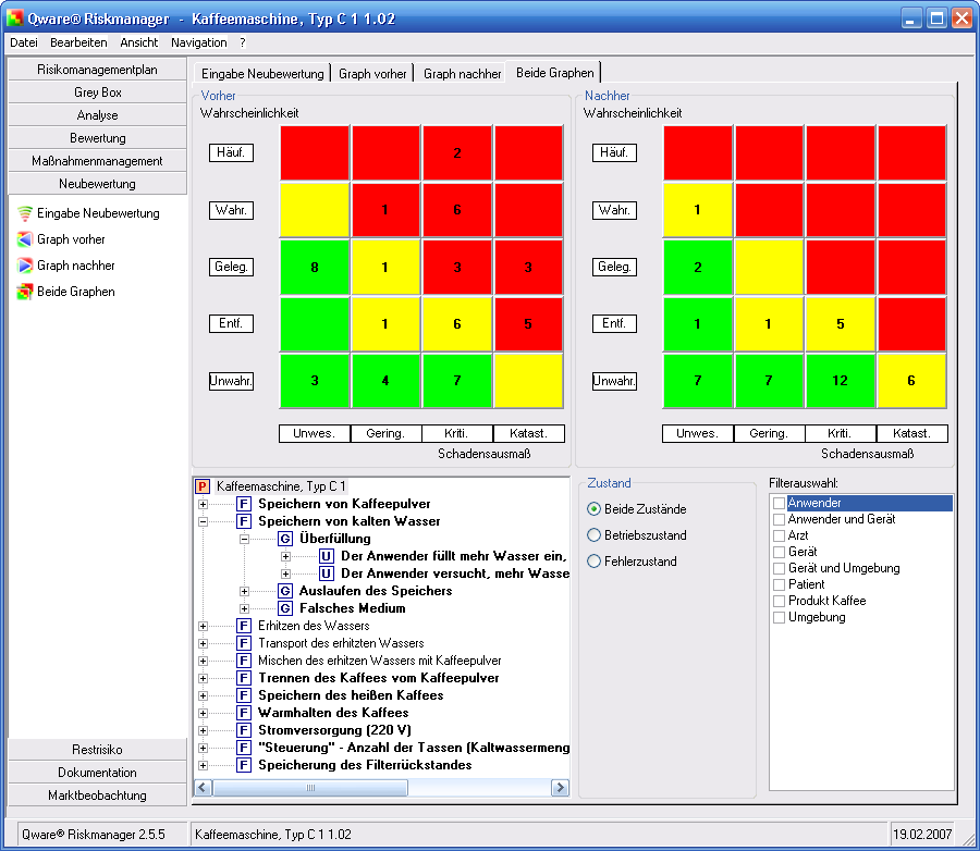 Screenshot des Qware Riskmanager 2.5